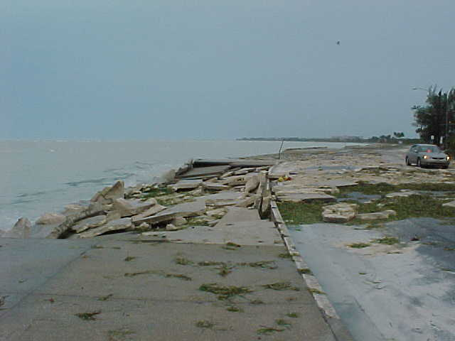 This image shows damage to the seawall in Key West, Florida from Hurricane Georges in 1998.